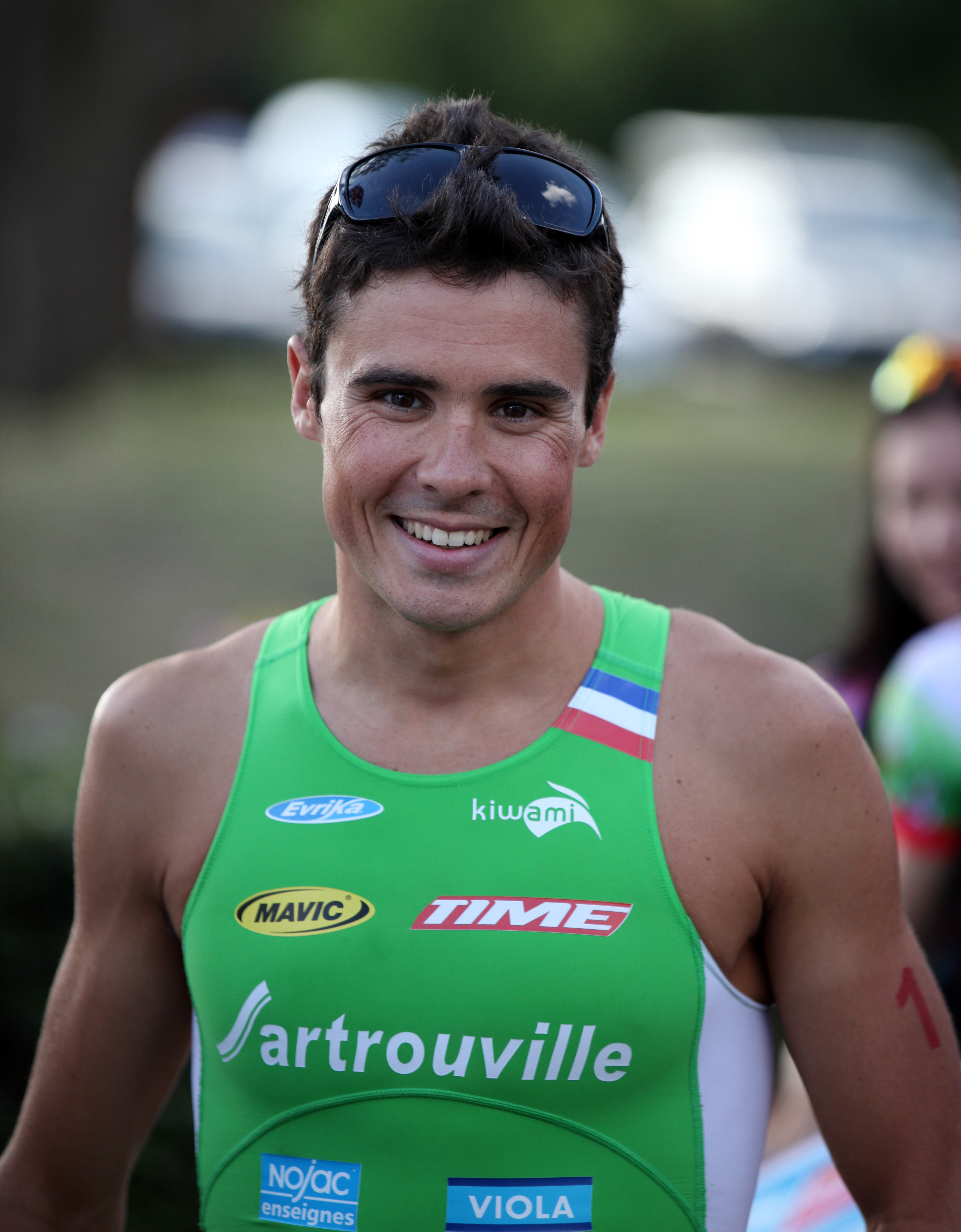 Francisco Javier Gómez at the Grand Prix triathlon (Lyonnaise des Eaux) in Tours (Tourangeaux), 2011.